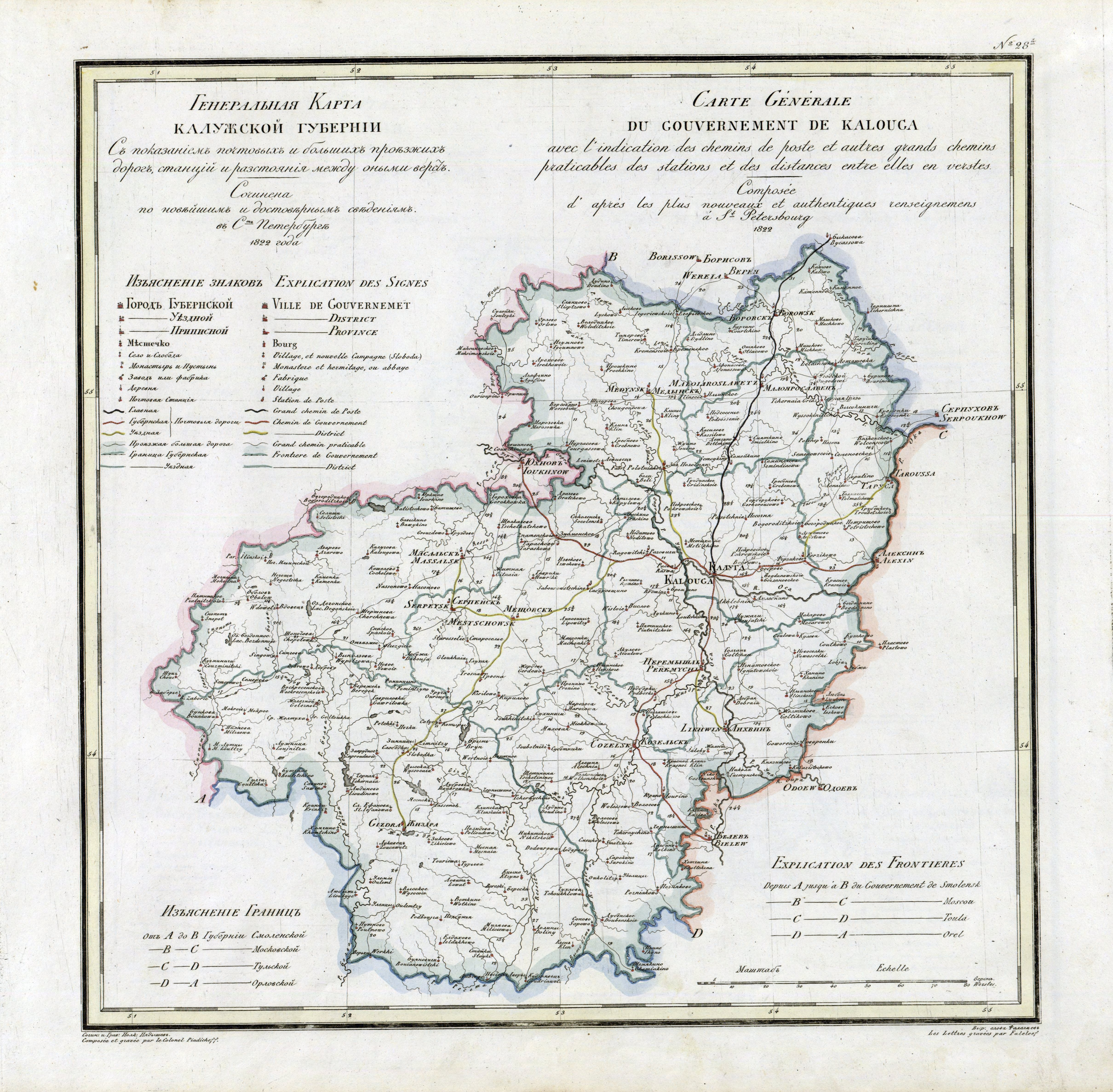 Kaluga governorate